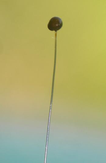 Closeup of the Phycomyces sporangium.